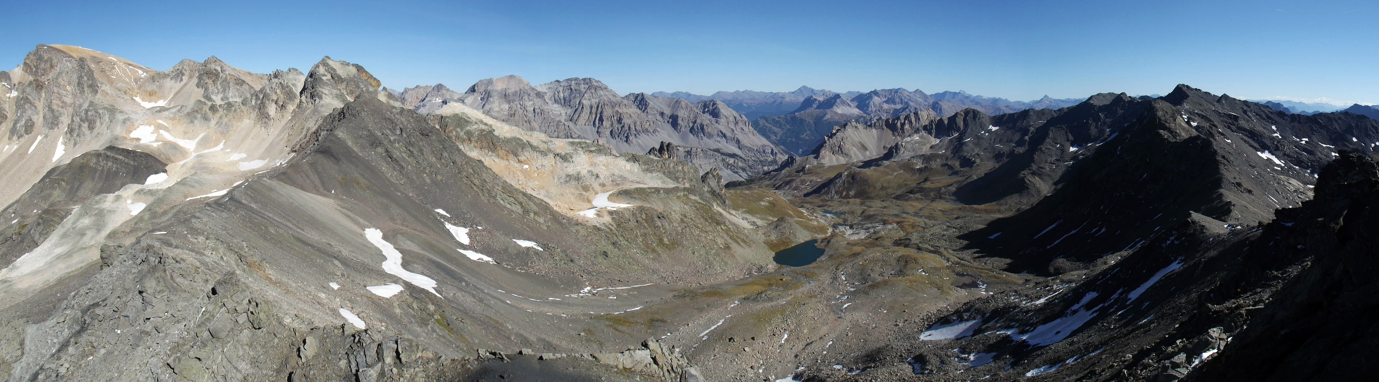 Roche du Chardonnet: panorama towards Vallée Étroite